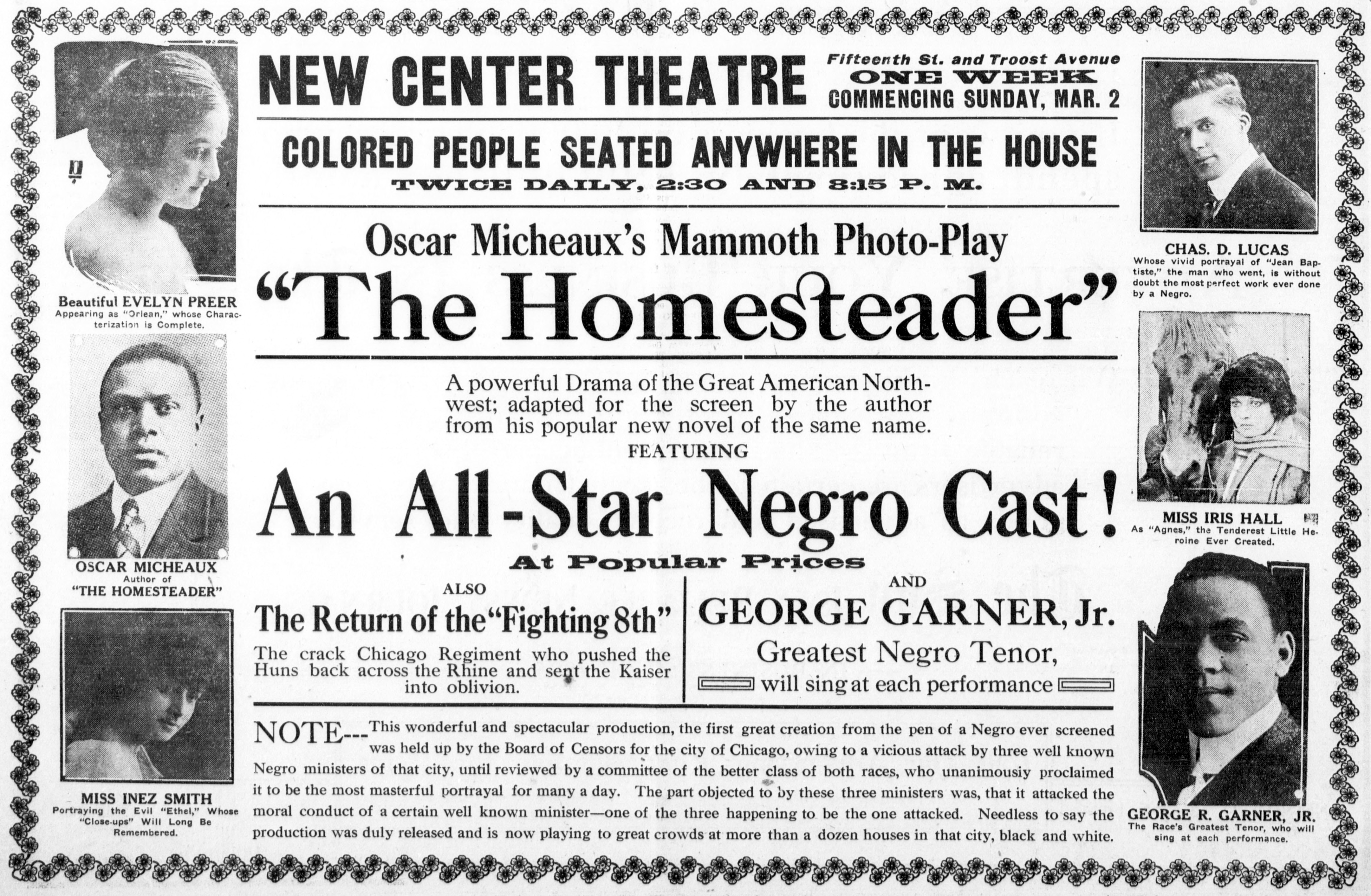 The Homesteader (1919) is a lost black-and-white silent race film by African American author and filmmaker Oscar Micheaux. This is a newspaper advert for the film.